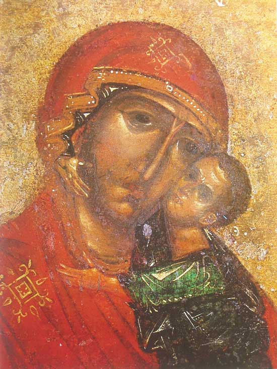 Small Theotokos of Tolga (fragment)